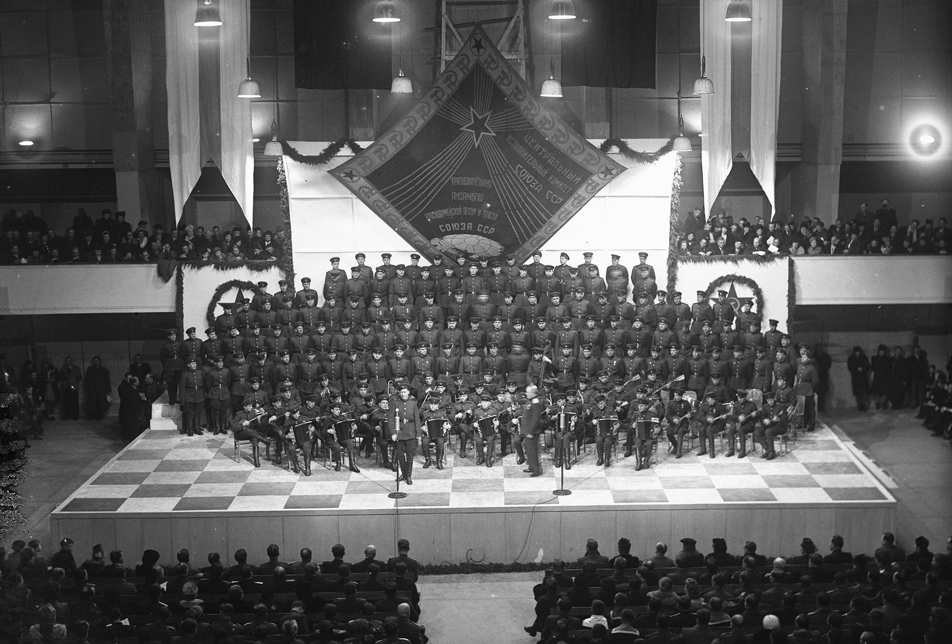 Photograph of the Red Army Choir and Ensemble performing in Helsinki, Messuhalli.